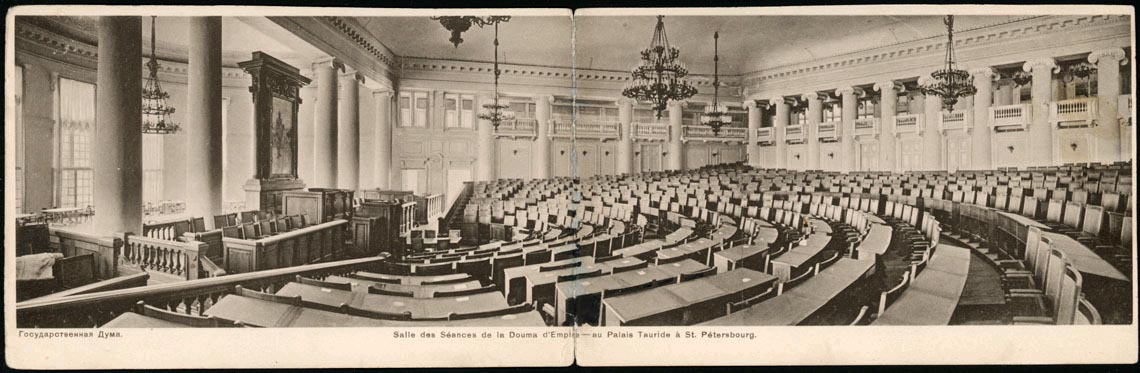 hall of the Sessions of the First State Duma in the Tauride Palace, St Petersburg.